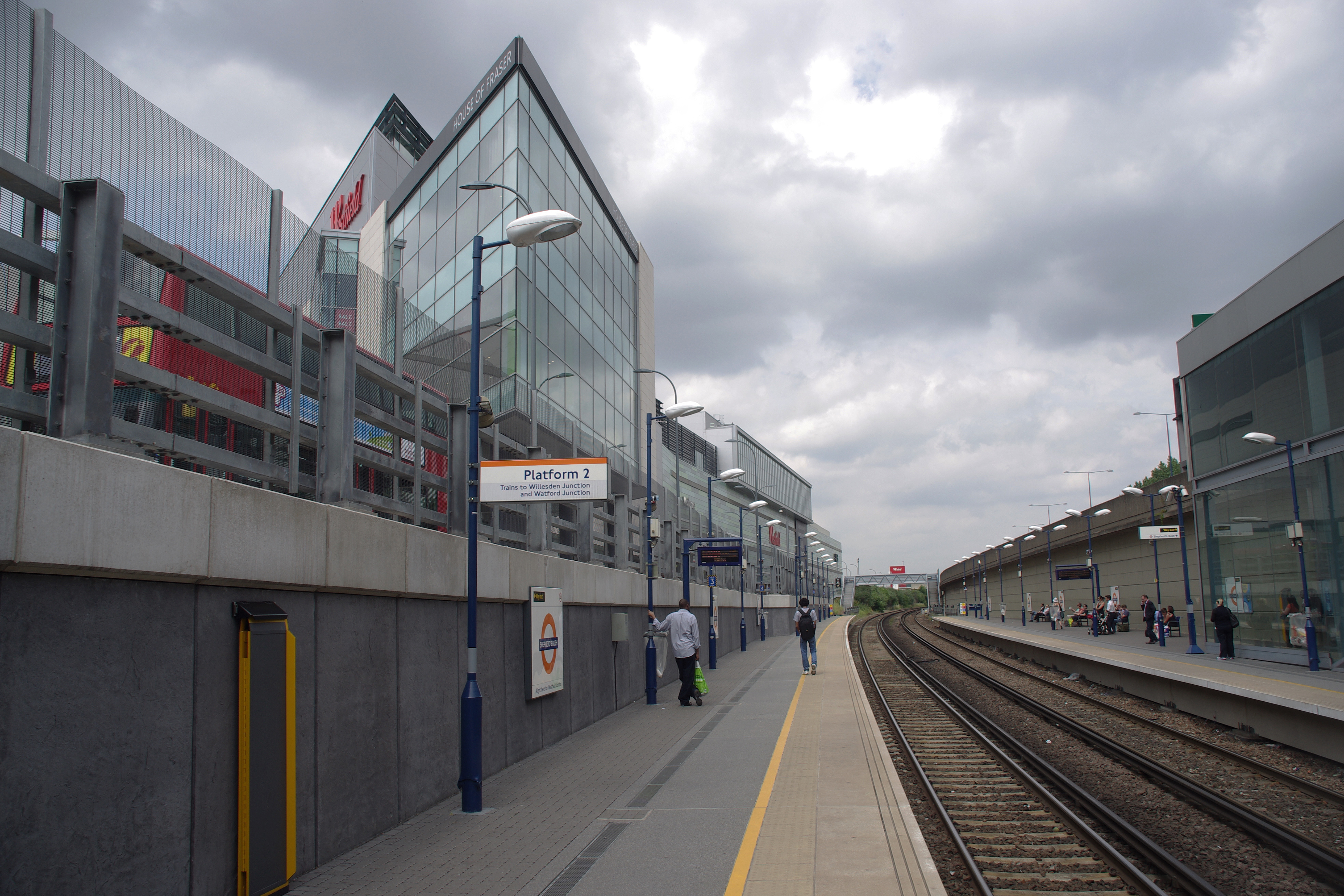 Looking north along the platforms at Shepherd's Bush railway station.